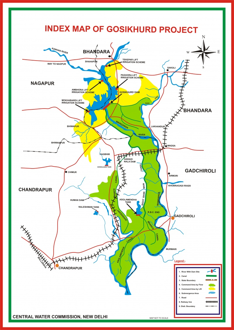 Map showing details of the Gosi Khurd Irrigation Project